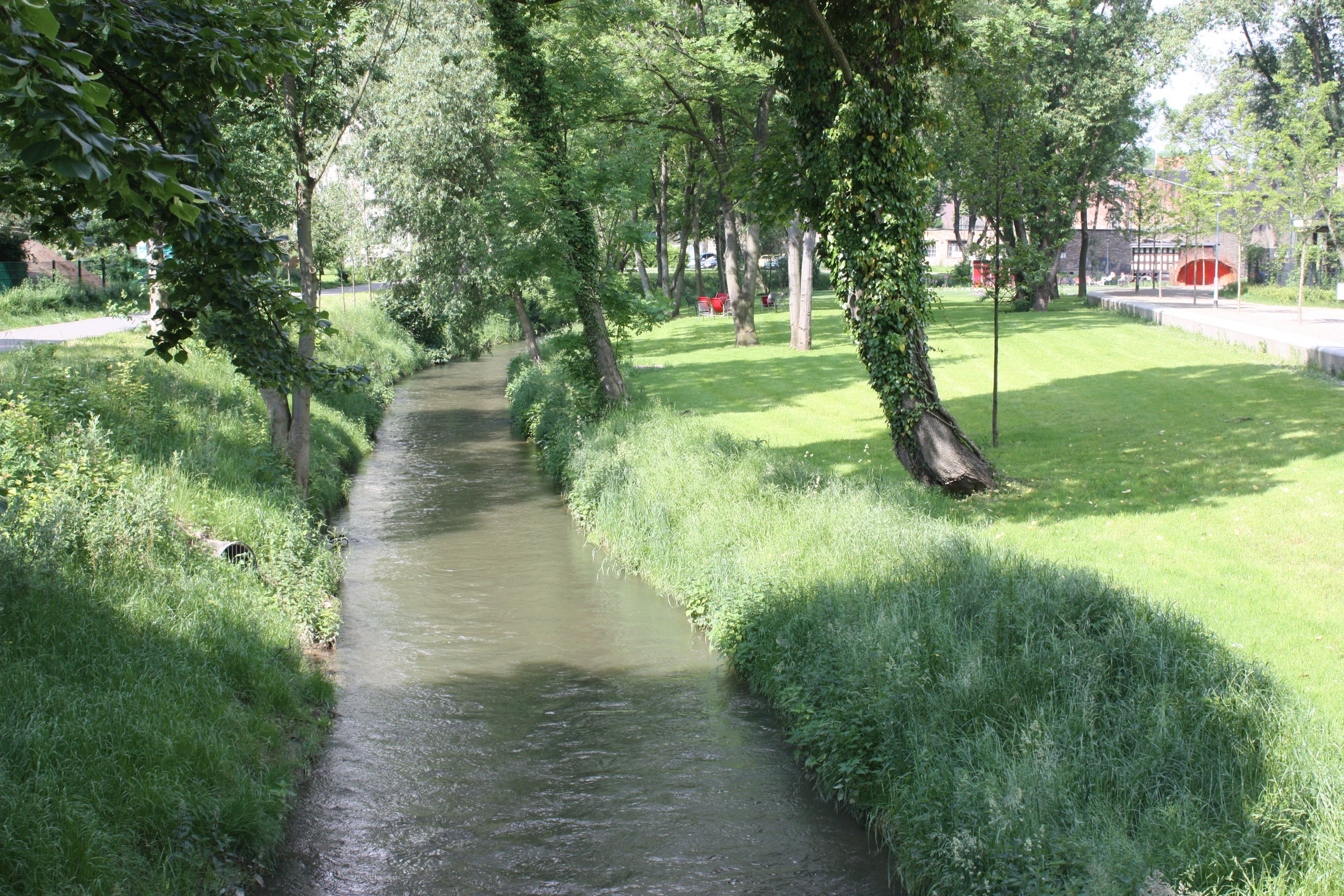 Aschersleben, the Eine river